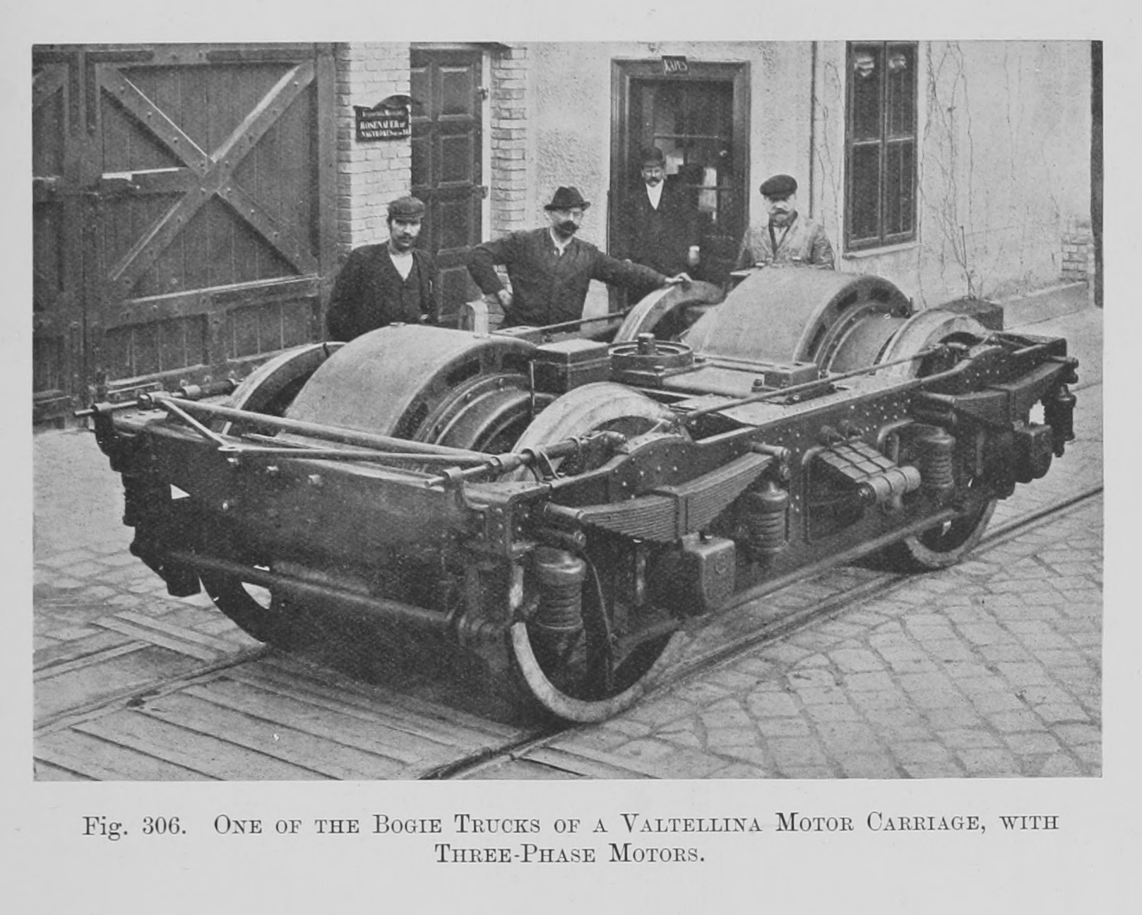 see image title - first number is figure or diagram number. See list of illustrations in source for page number in source - relevent text content is near to image in the source